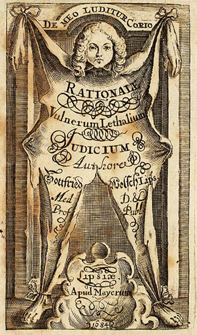 title page of Gottfried Welsch: Rationale vulnerum lethalium judicium